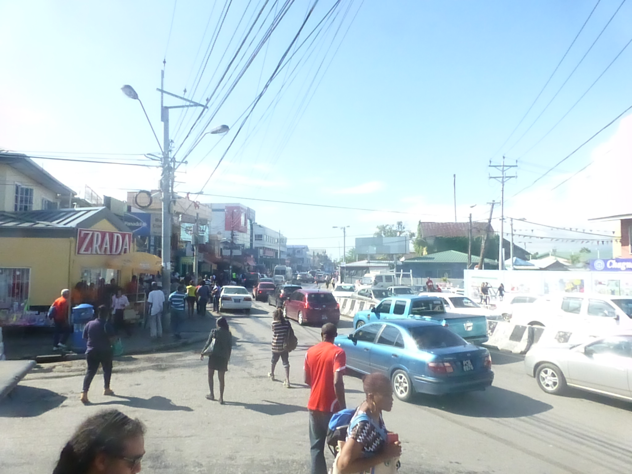 Chaguanas Main Road, Chaguanas, Trinidad and Tobago.